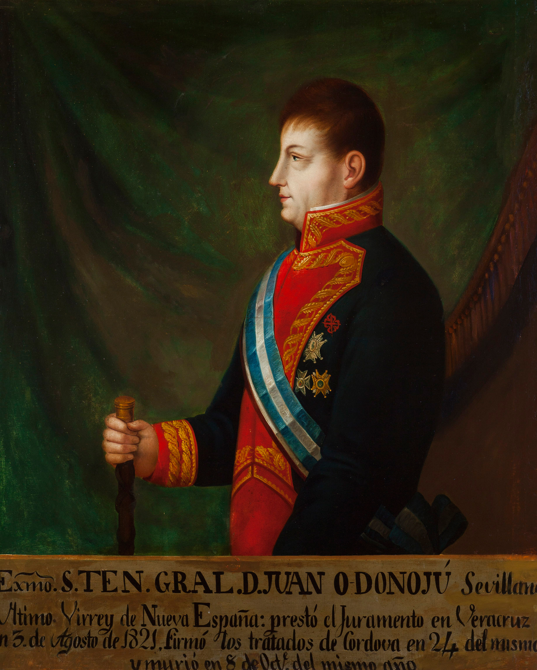 Viceroy Juan O'Donojú (1762-1821)